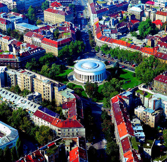 Picture of the Trg Žrtava Fašizma (Victims of Fascism square) in Zagreb, Croatia